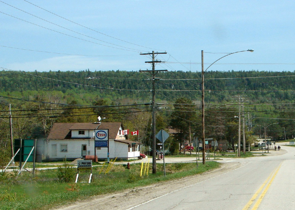 M'Chigeeng First Nation Reserve, Manitoulin Island, Ontario, Canada